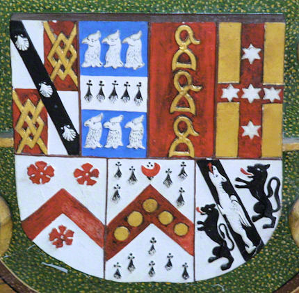 Arms of John Spencer (d. 1599)